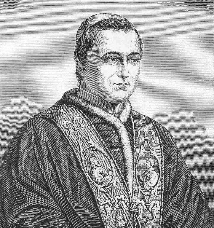 Illustration of Pope Pius IX, appeared on a 1873 book